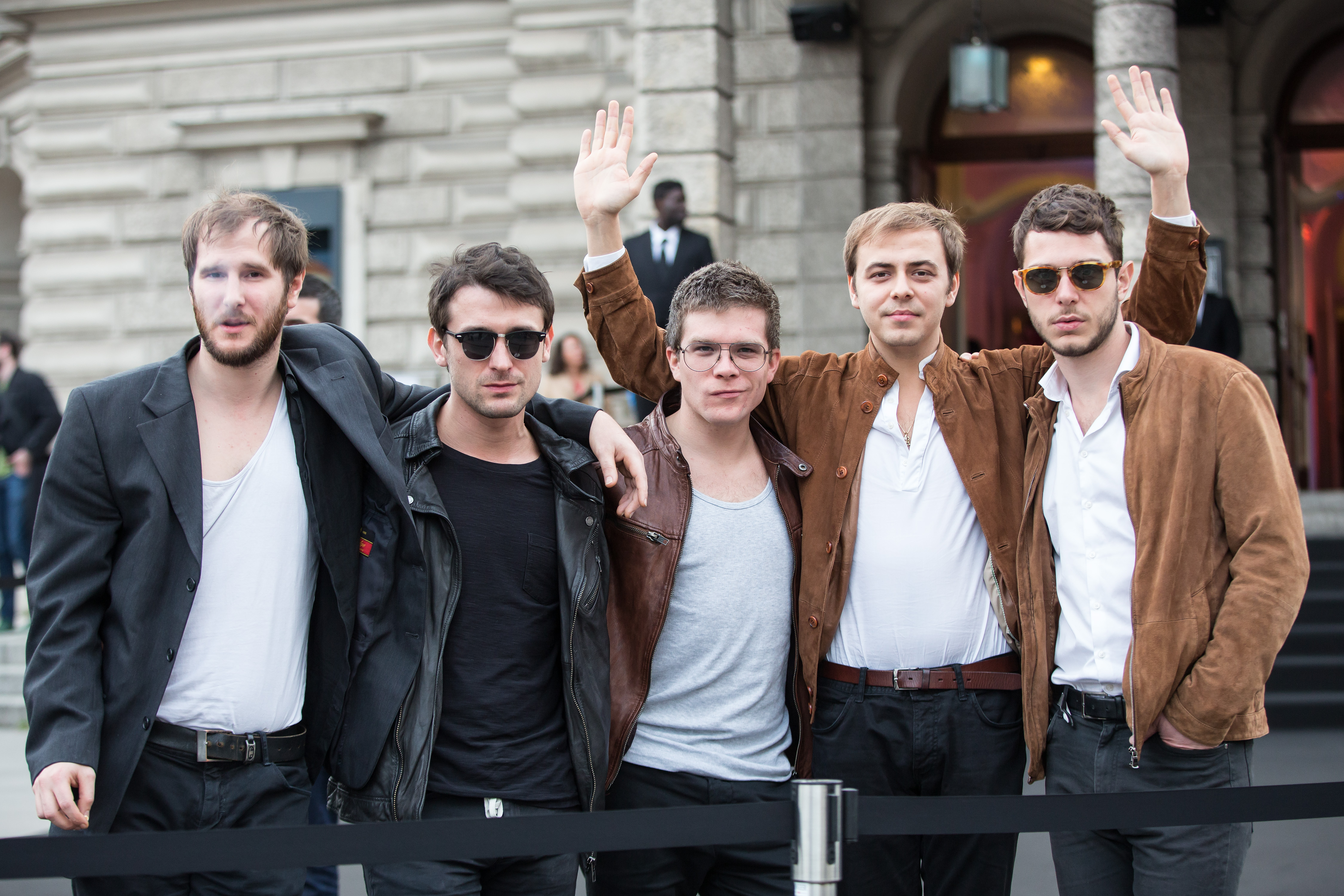 Wanda at the Amadeus Austrian Music Award 2015 at Volkstheater in Vienna